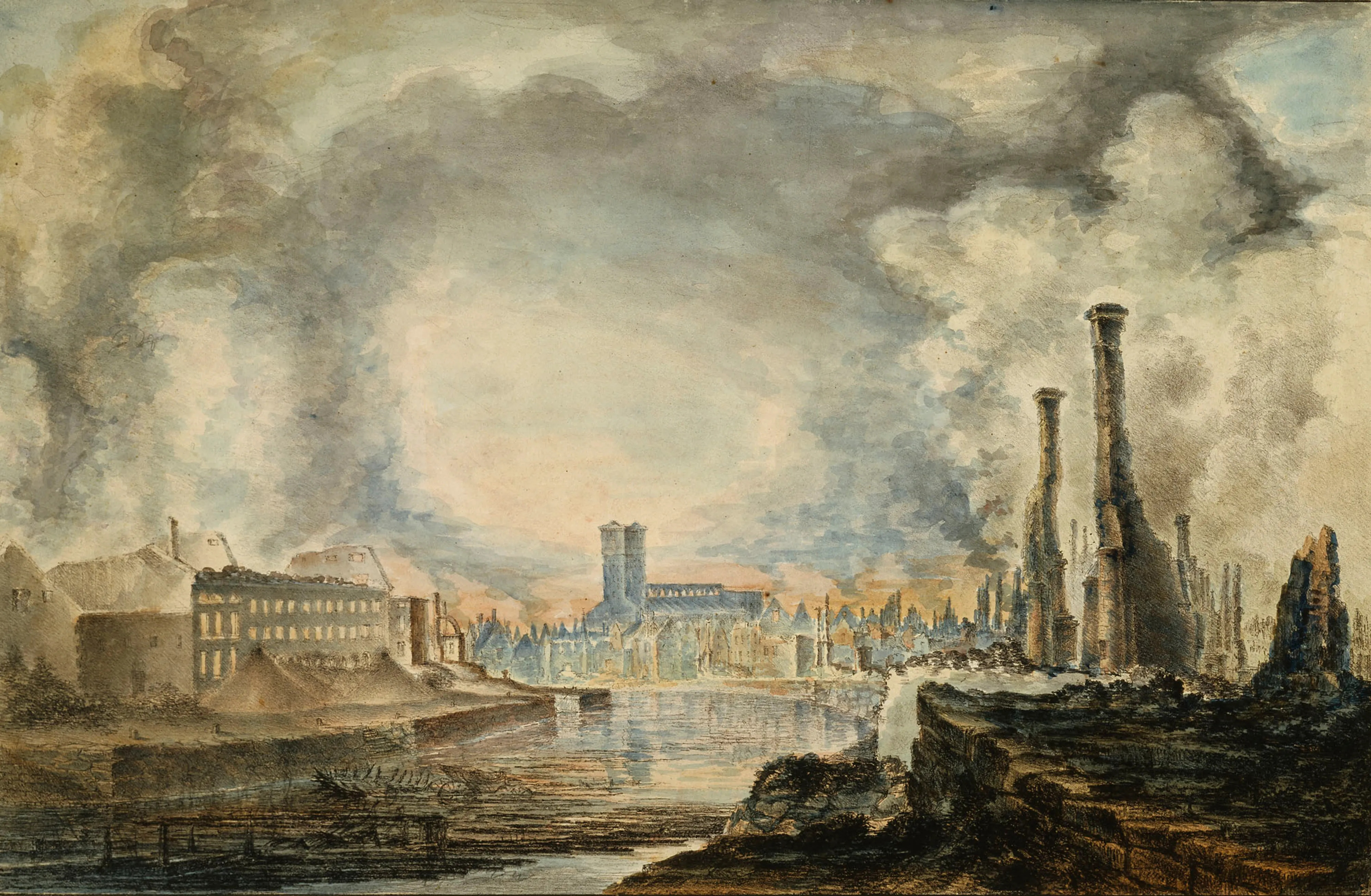 Image of central Turku in 1827 after the Great fire that almost destroyed the entire city.